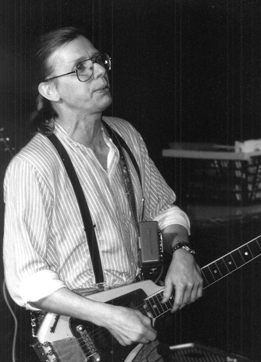 Photo of German singer-songwriter Gerhard Gundermann.